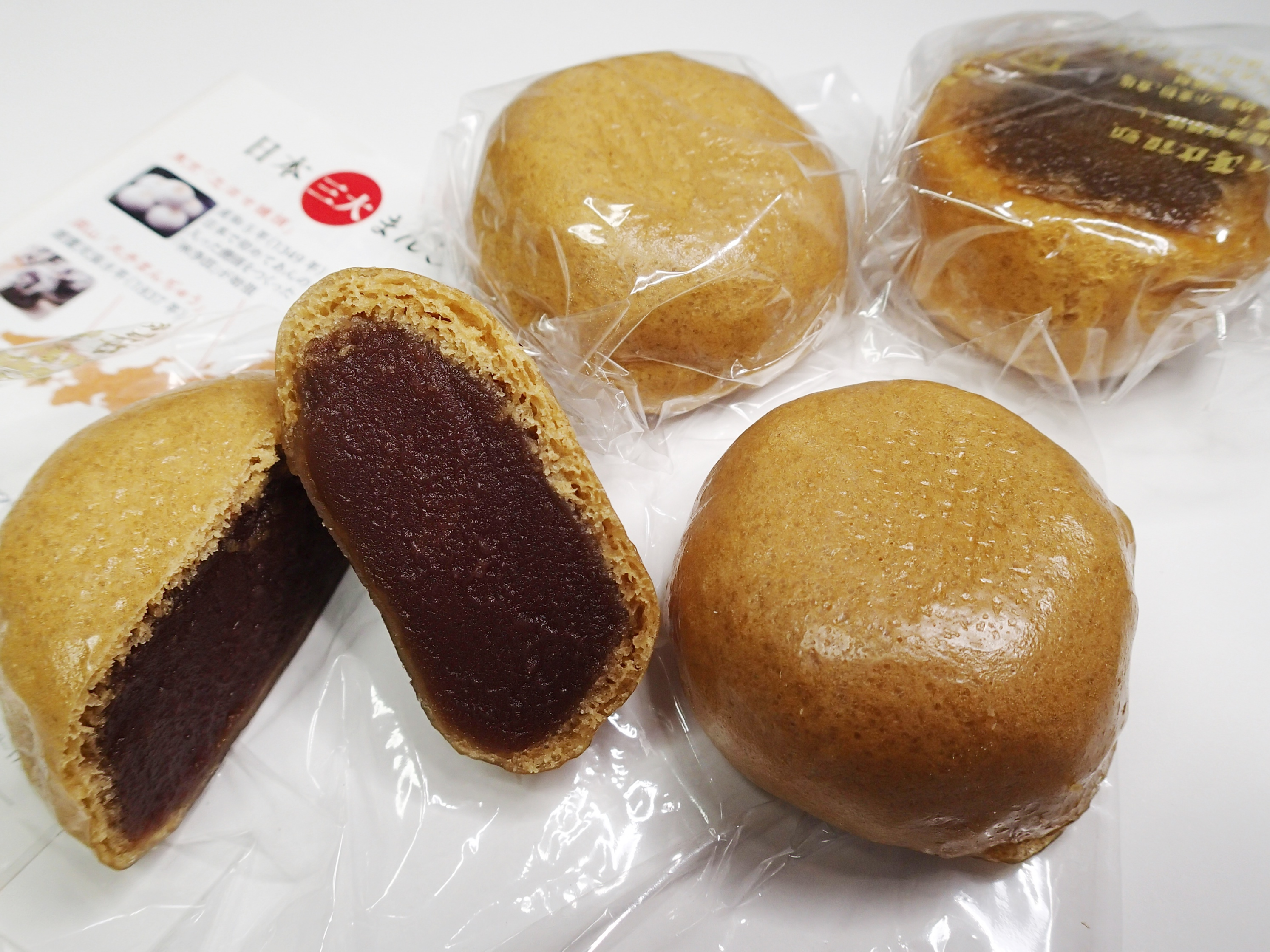 Usukawa Manjū made by KASHIWAYA Co.Ltd., Koriyama, Fukushima, Japan.